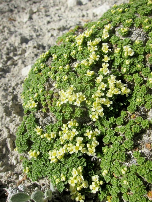 Lepidium nanum, Eureka County, Nevada, USA. This photo is in the public domain and may be freely used for any purpose.